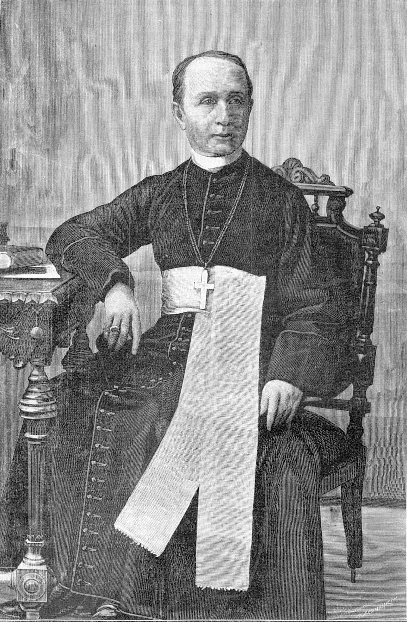 Franjo Rački